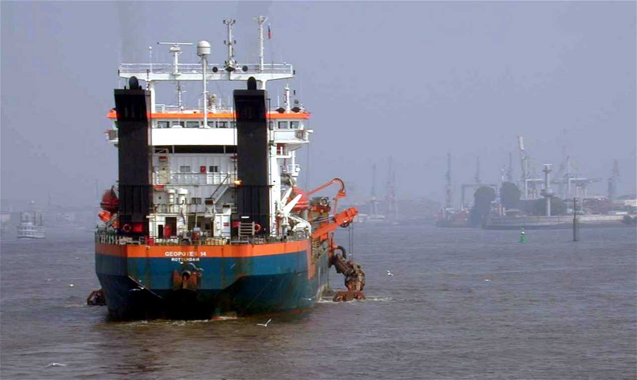 Dredge "Geopotes 14" entering Hamburg Harbour beginning its exertion Detail: Watering the dredging rig